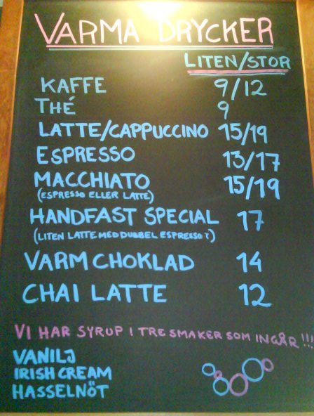 Showing a coffe menu.